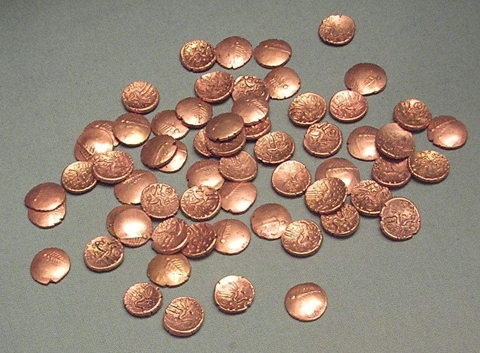 Farmborough Hoard, a treasure of 61 gold coins dating from the 1st century, that was found from Farmborough, Somerset in 1982. It is nowadays in the British Museum.